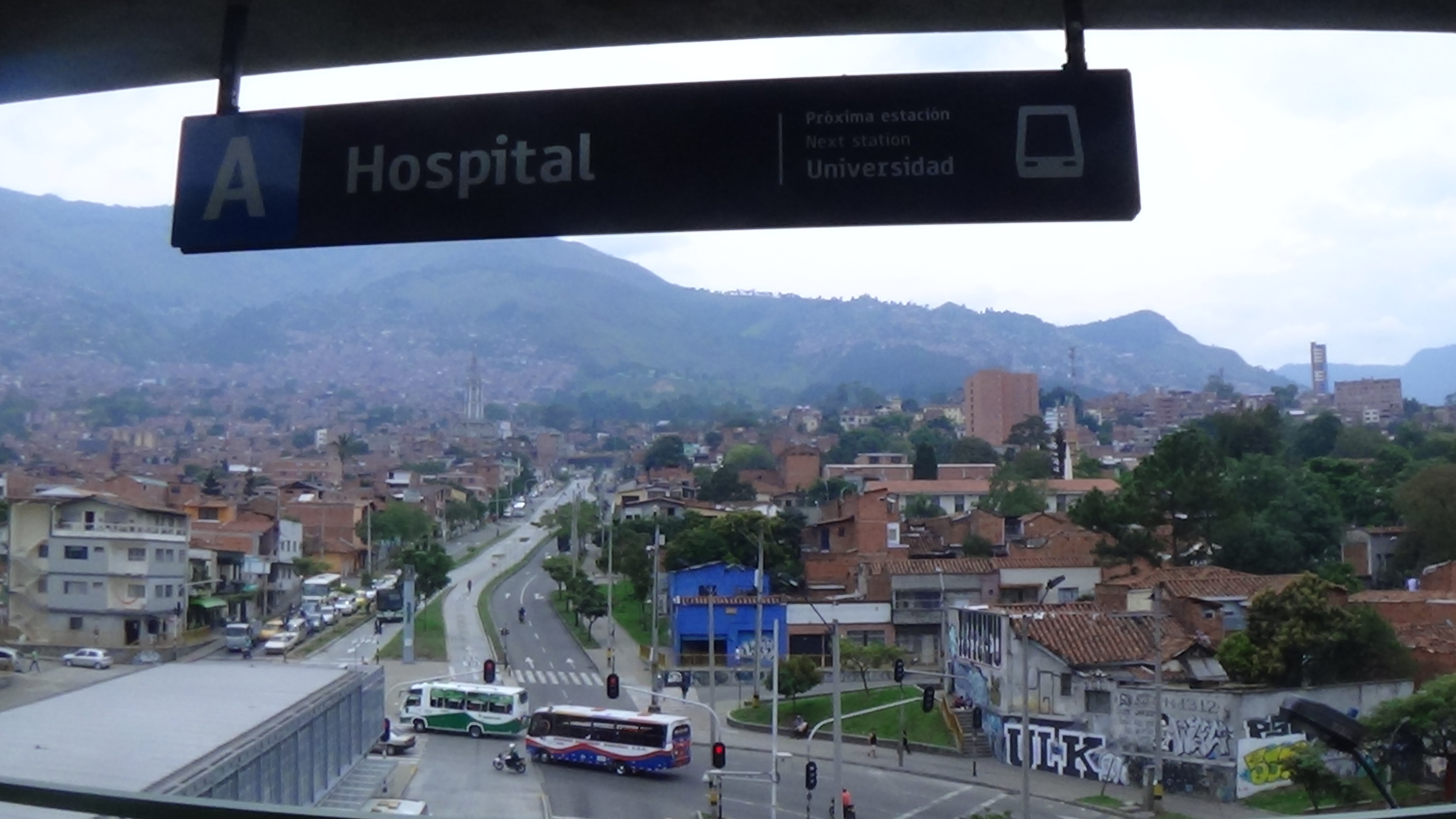 View from Hospital station, Medellin metro